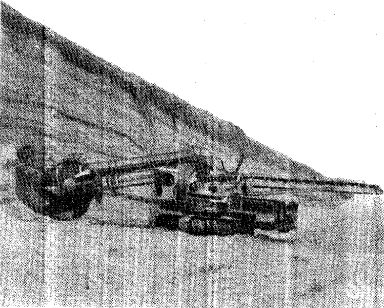 Open pit mine of phosphate near Bu Craa, in Spanish Sahara